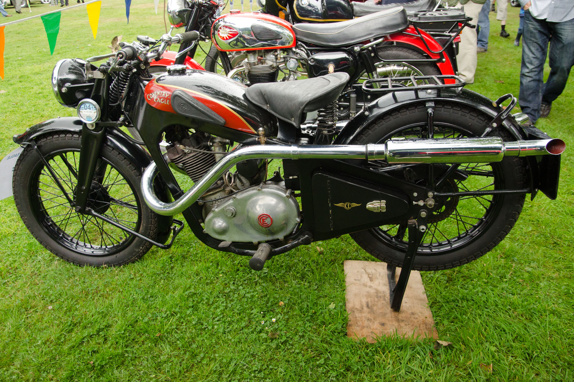 Lytham Hall Classic Car Show 03/08/2014